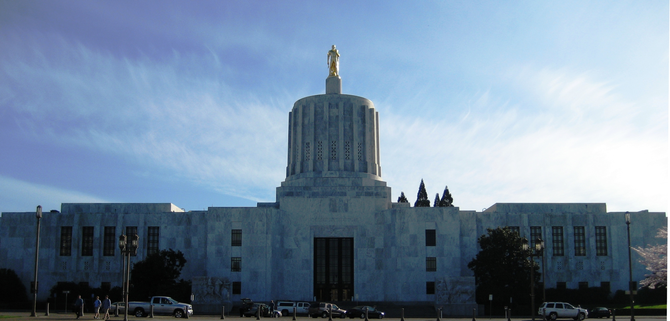 Oregon State Capitol Building in Salem, Oregon